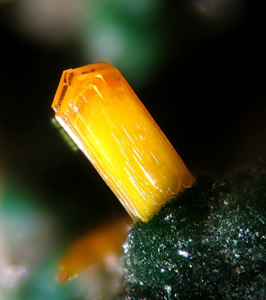 Kasolite Locality: Musonoi Mine, Kolwezi, Western area, Katanga Copper Crescent, Katanga (Shaba), Democratic Republic of Congo (Zaïre) (Locality at ) Picture width 2 mm. Collection and photograph Christian Rewitzer